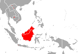 Bornean Horseshoe Bat (Rhinolophus borneensis) range